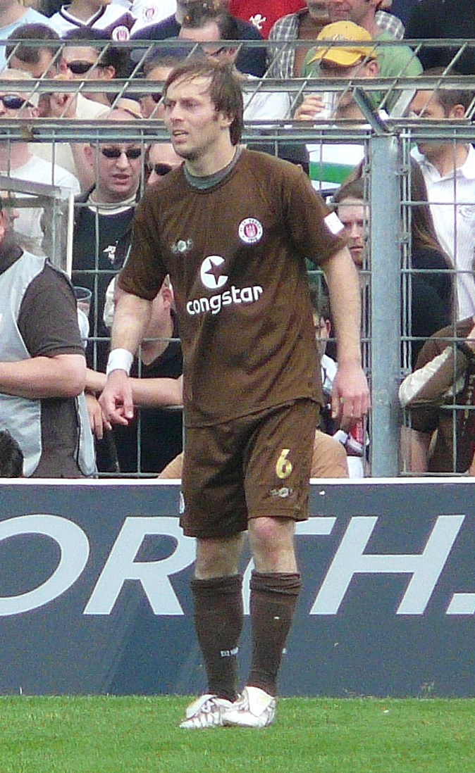 Filip Trojan in the Season 2007/08 by the FC St. Pauli